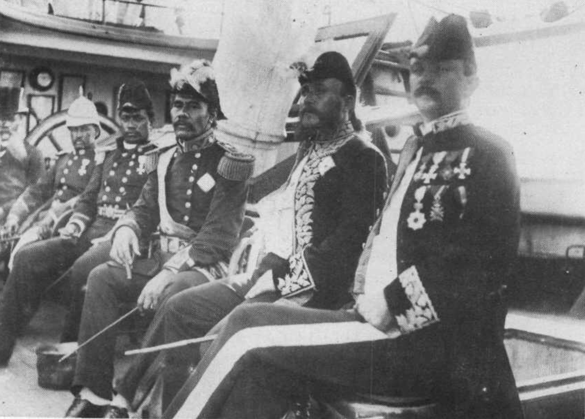 Photograph of a ceremony aboard the former British steamship Kaimiloa marking the short-lived 1887 alliance between the Kingdoms of Samoa and Hawaii. From right to left: secretary Henry F. Poor, Hawaiian envoy John Edward Bush (1843–1906), Samoan King Malietoa Laupepa, (1841-1898) and other Samoan delegates: Moli, Ainuu Tatopau and Ainuu Aisake.